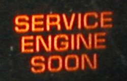 Check Engine light on a 1996 Dodge Caravan.